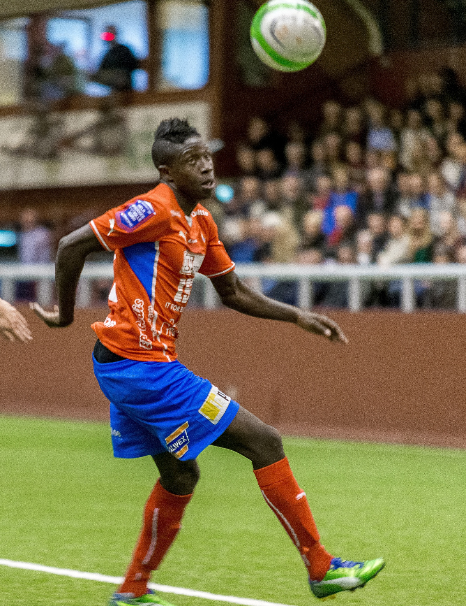 Swedish defender Pa Konate playing his first game for Östers IF (on loan from Malmö FF for the 2014 season) against IFK Göteborg, February 21 2014.